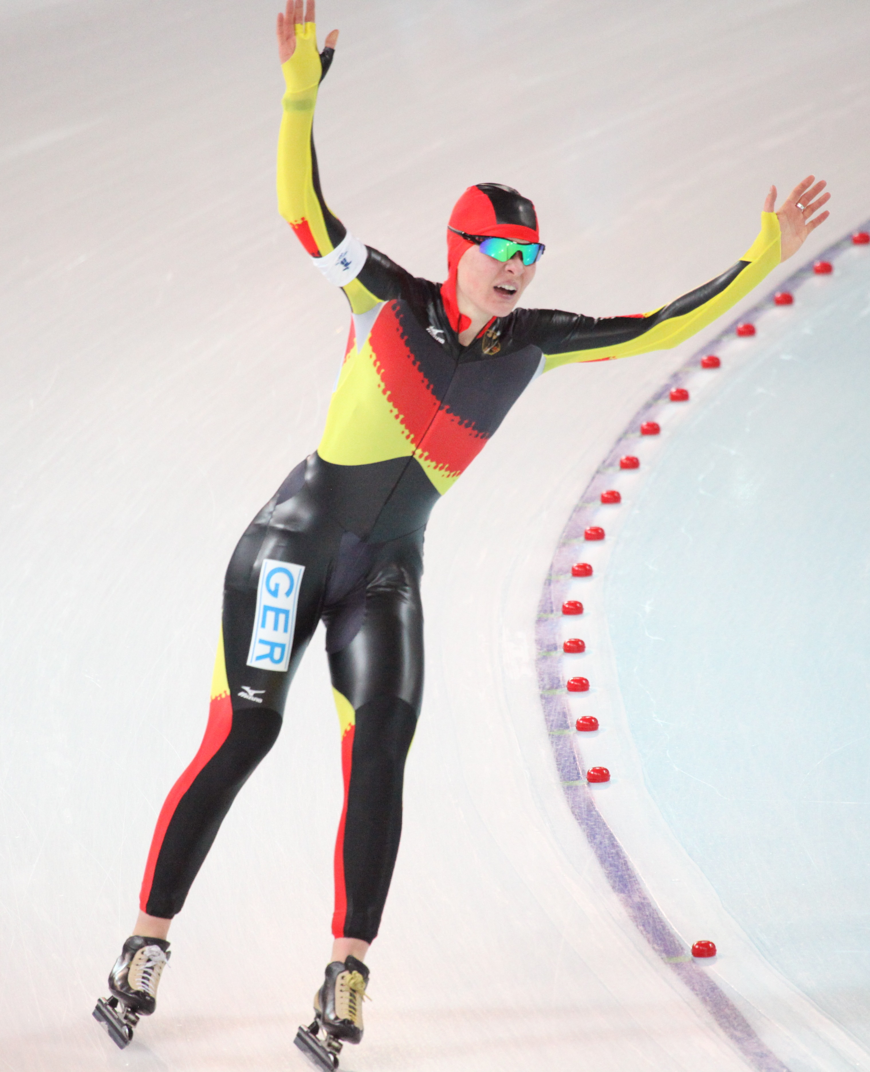 Women's 5000 meter finals at Vancouver 2010 Olympics